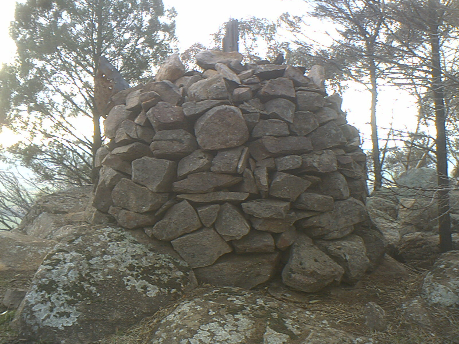 Euraldrie Trig above Holy Camp. Weddin Mountains National Park.